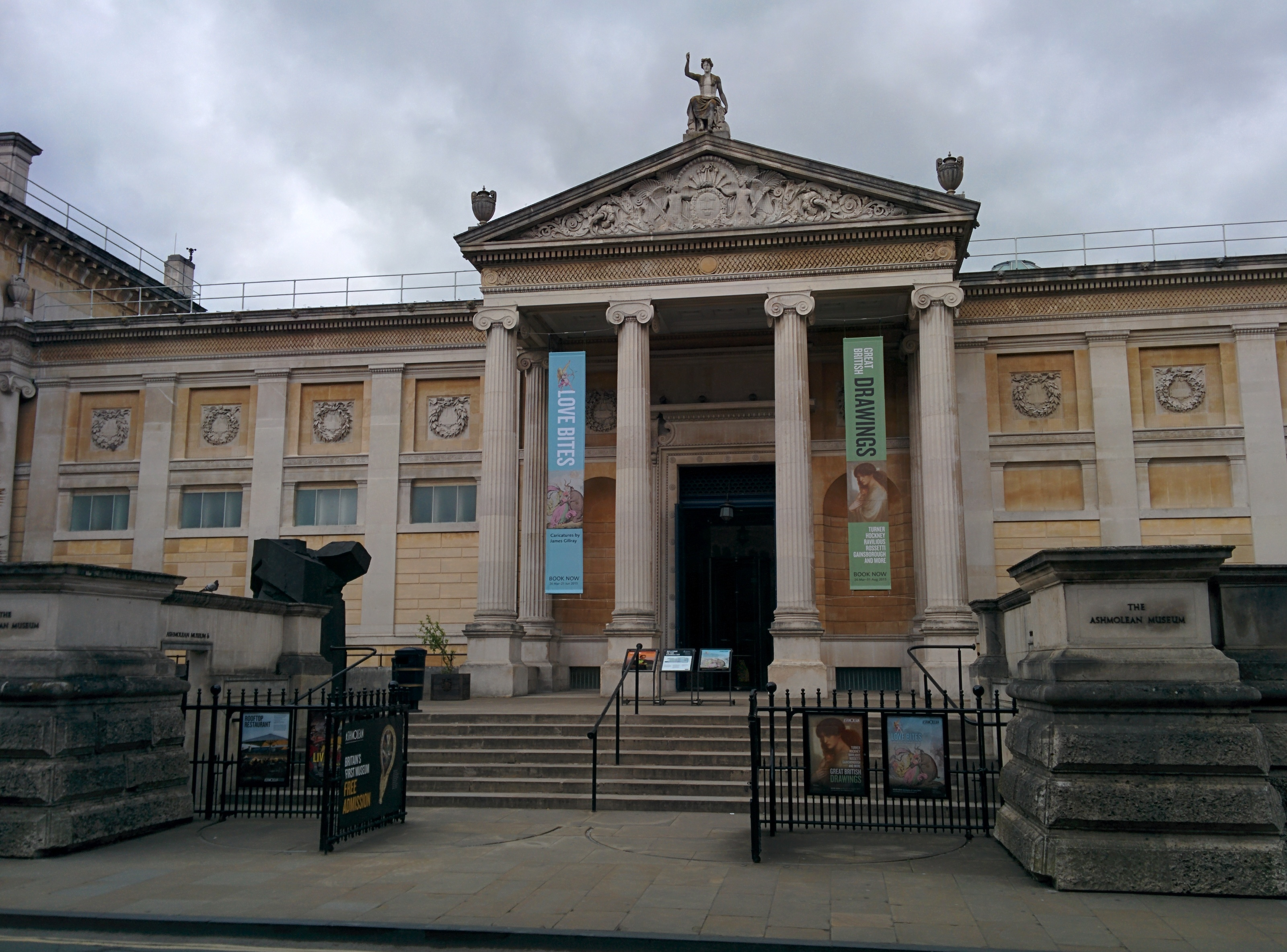 Ashmolean museum, Oxford, Entrance Screen And Steps Fronting Beaumont Street